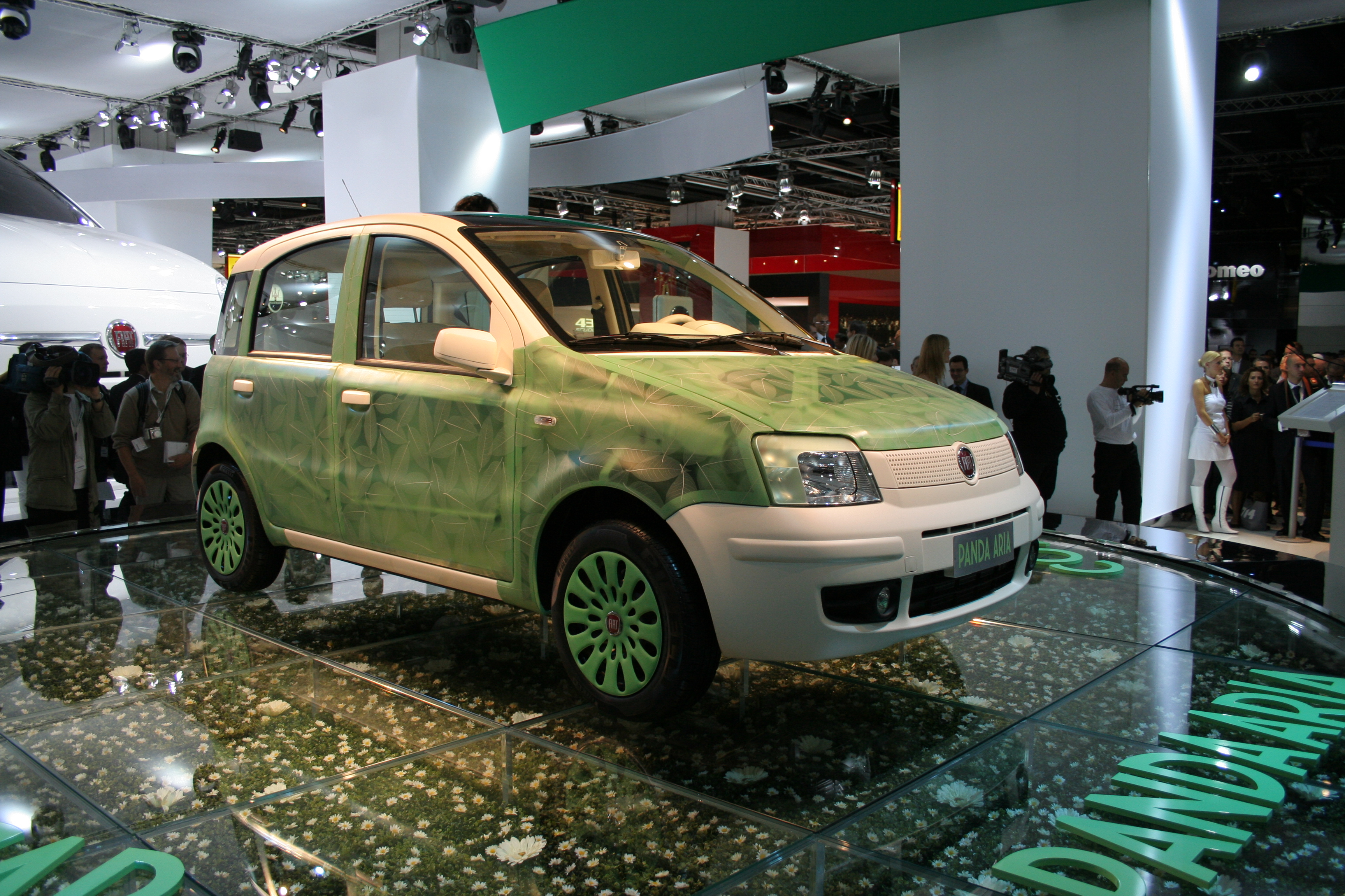 Image from IAA 2007 in Frankfurt am Main